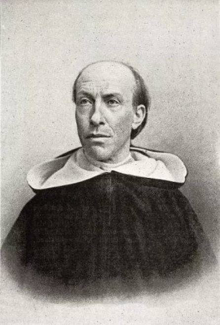 Een bewerking van een portretfoto van J.V. de Groot door Wilhelm Ivens.